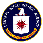 CIA Seal Transwiki approved by: User:Dmcdevit. This image was copied from en.